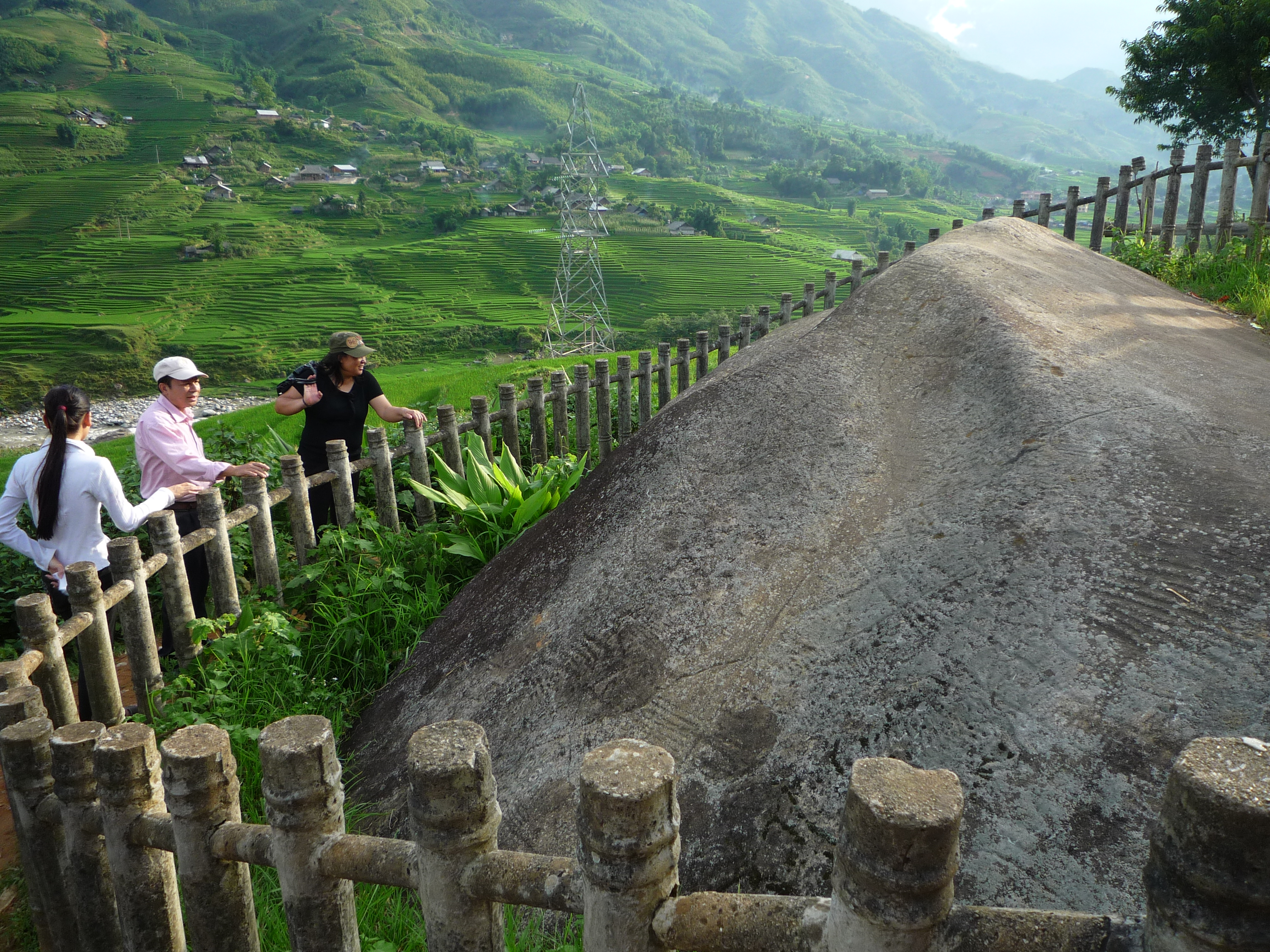 An engraved rock taken in the way down the site of ancient engraved rock in Sapa, a tentative World heritage site.